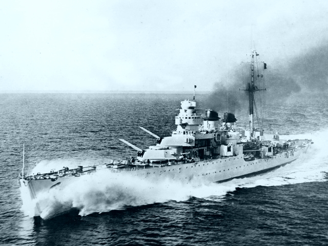 Italian cruiser Garibaldi before the war